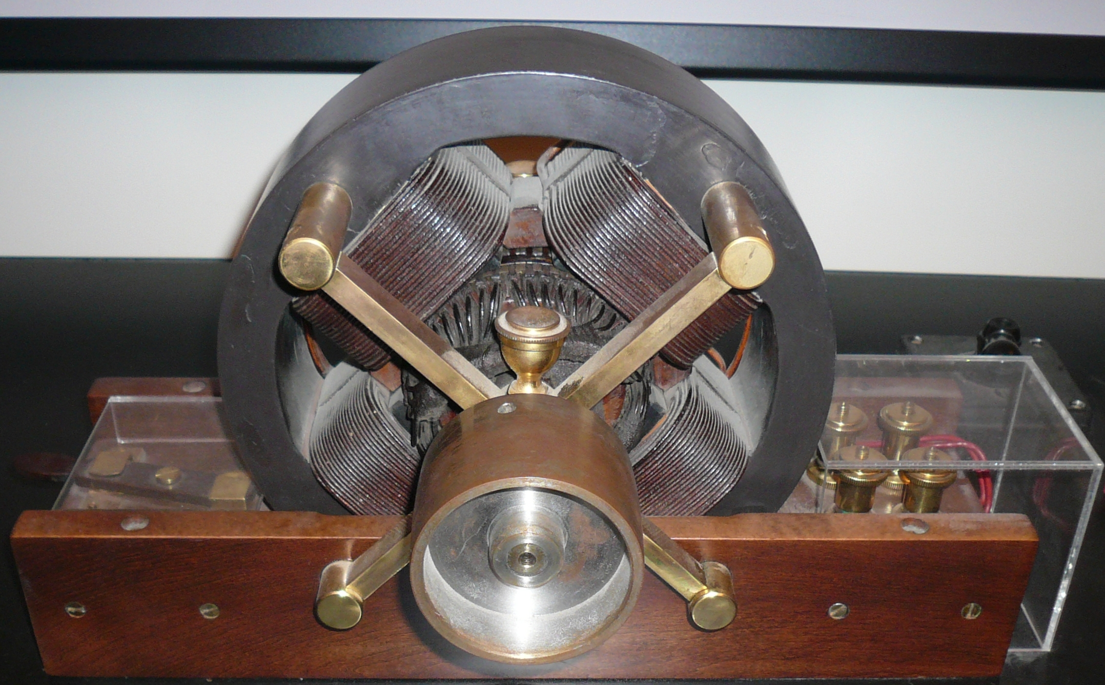 Model of induction motor with short circuit rotor. Nikola Tesla Museum, Belgrade, Serbia